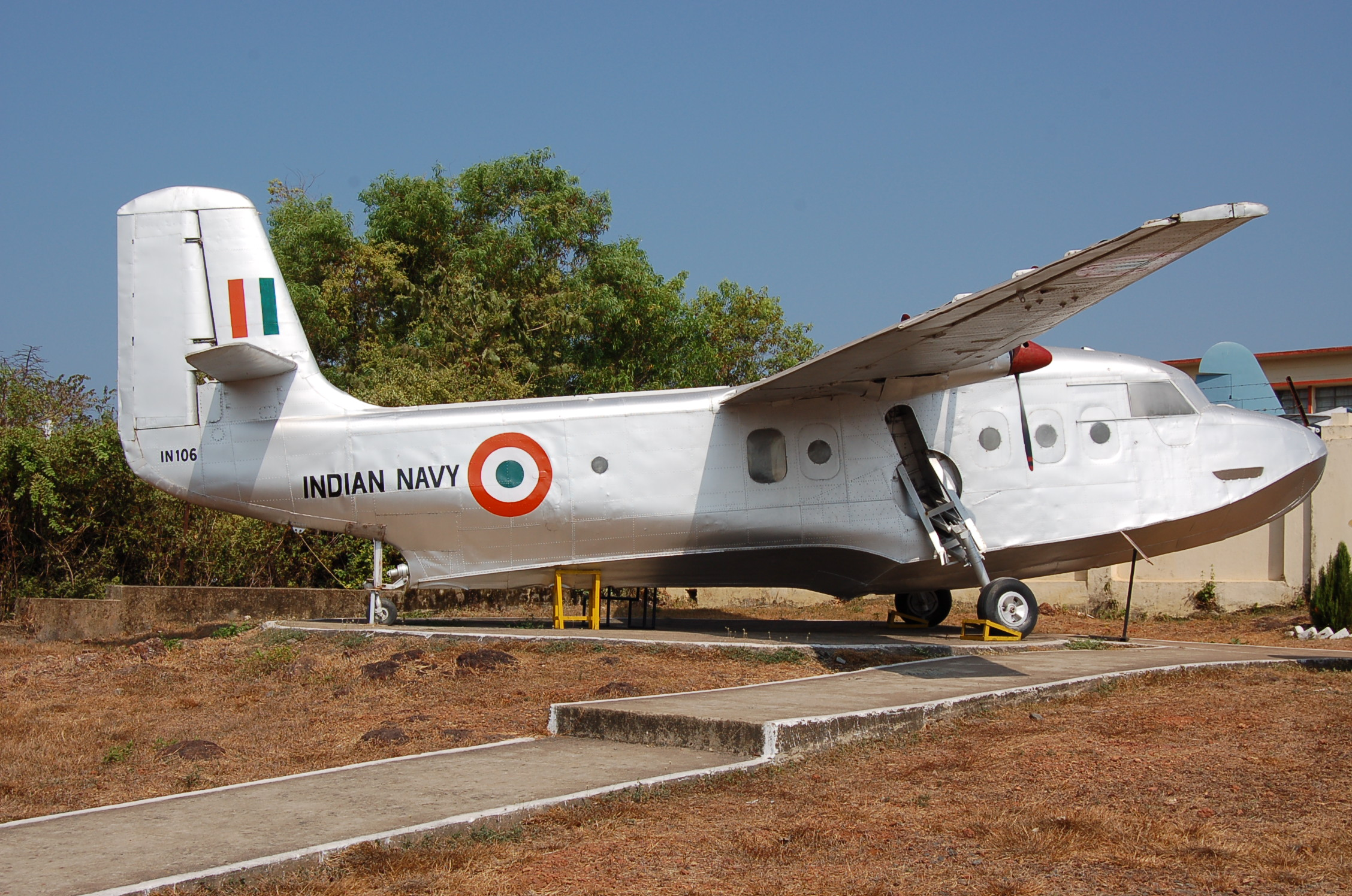 Shorts SA.6 Sealand 1 preserved at the Indian Naval Museum,Goa,India,09/02/14.